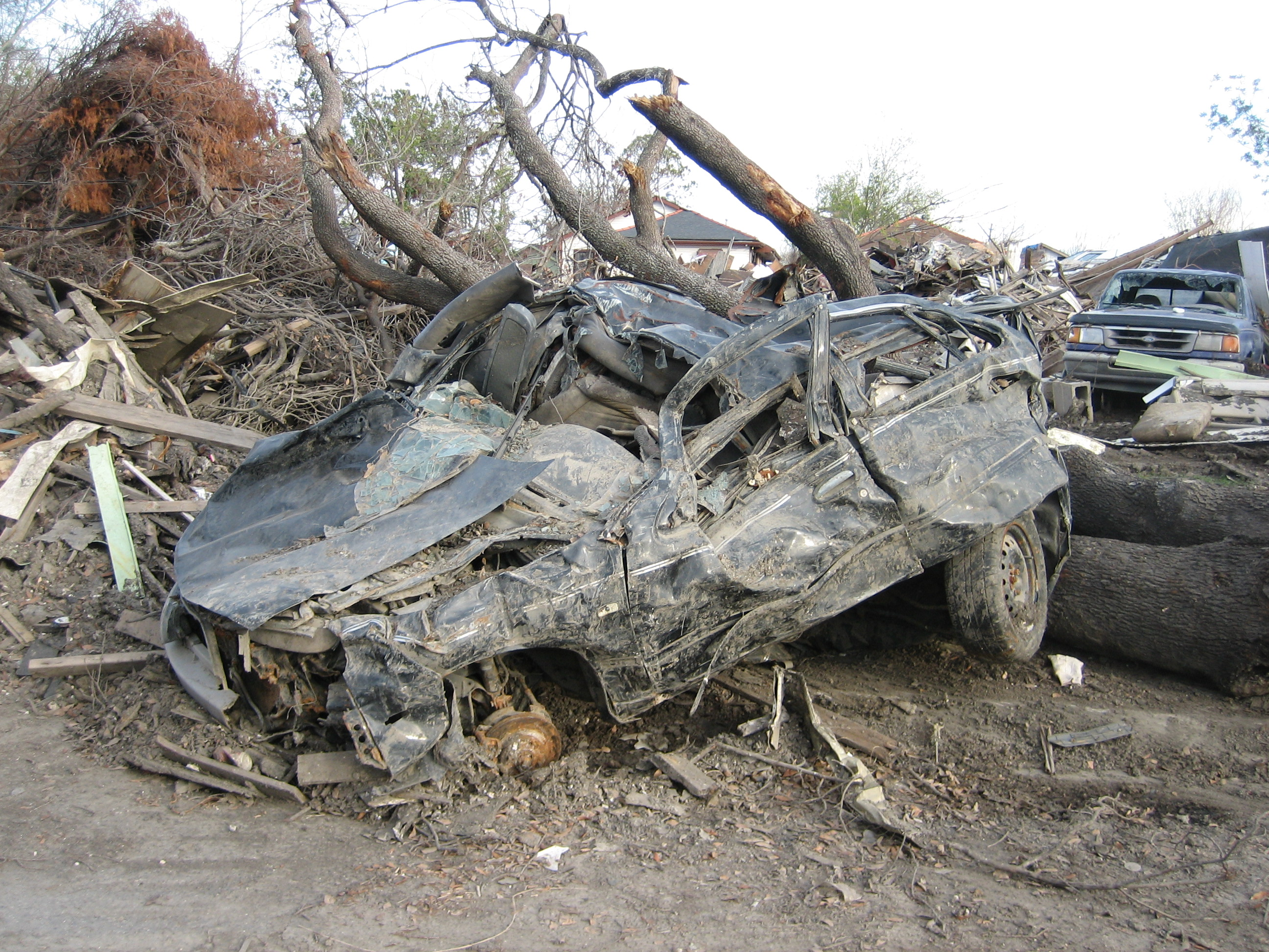 New Orleans after Hurricane Katrina. Lower 9th Ward flood devastated residential neighborhood. Pile of smashed cars, homes, and trees.